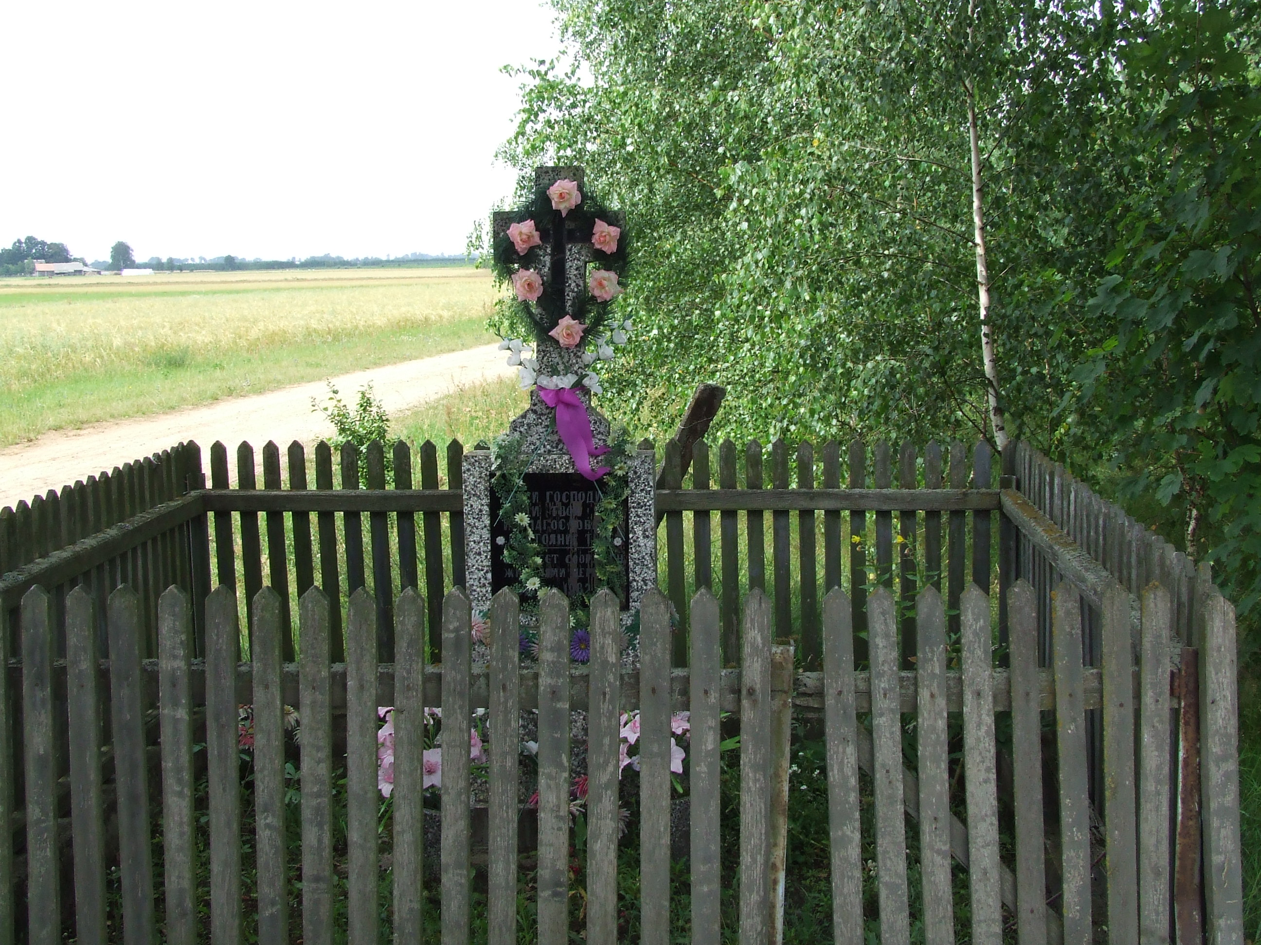 This photo from Podlaskie Voievodeship was taken during Polish Wikiexpedition 2009 set up by Wikimedia Polska Association. The making of this document was supported by Wikimedia Polska. A cross near Borek